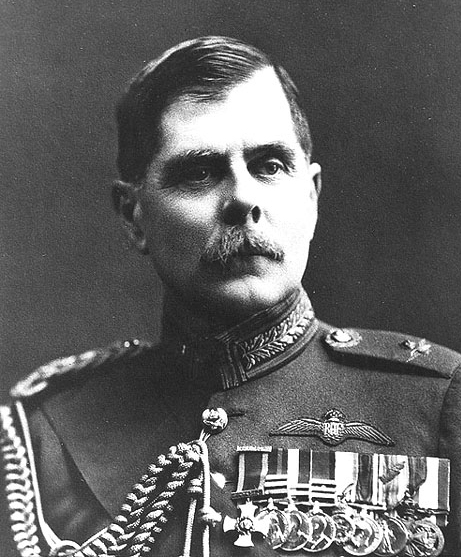 Cropped photograph of Sir Hugh Trenchard.